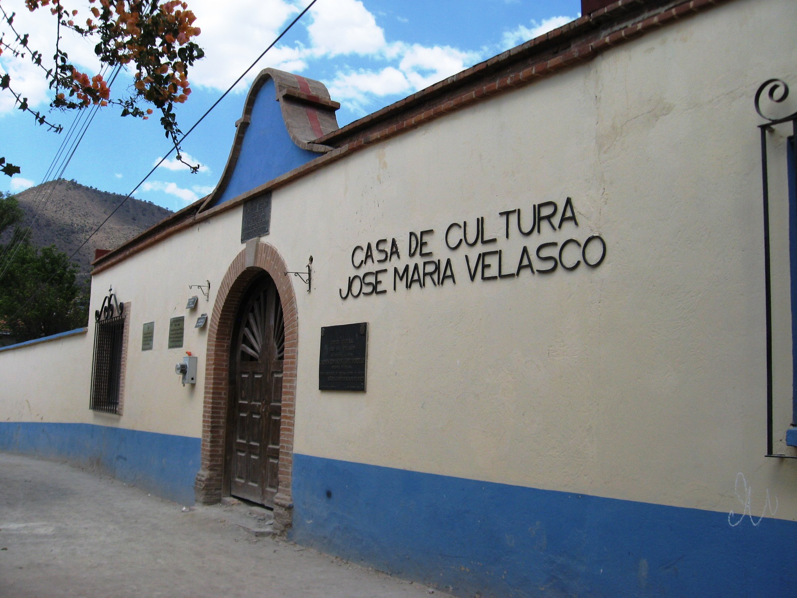 The Jose Maria Velasco Museum in Temascalcingo, Mexico State, Mexico